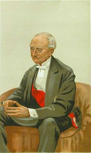 Caricature of Admiral Sir Hastings Reginald Yelverton, GCB (1808-1878). Caption read "Spanish Ironclads".